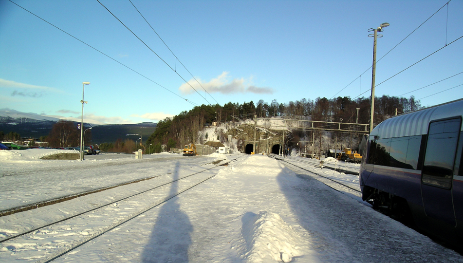 The split between Dovrebanen and Raumabanen at Dombås. Raumabanen to the left.